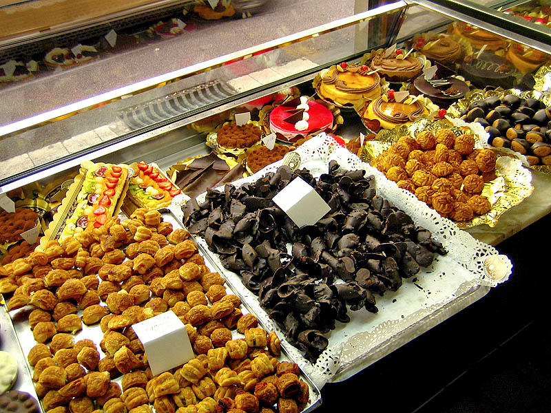 Sweets in Barcelona, Catalonia, Spain.